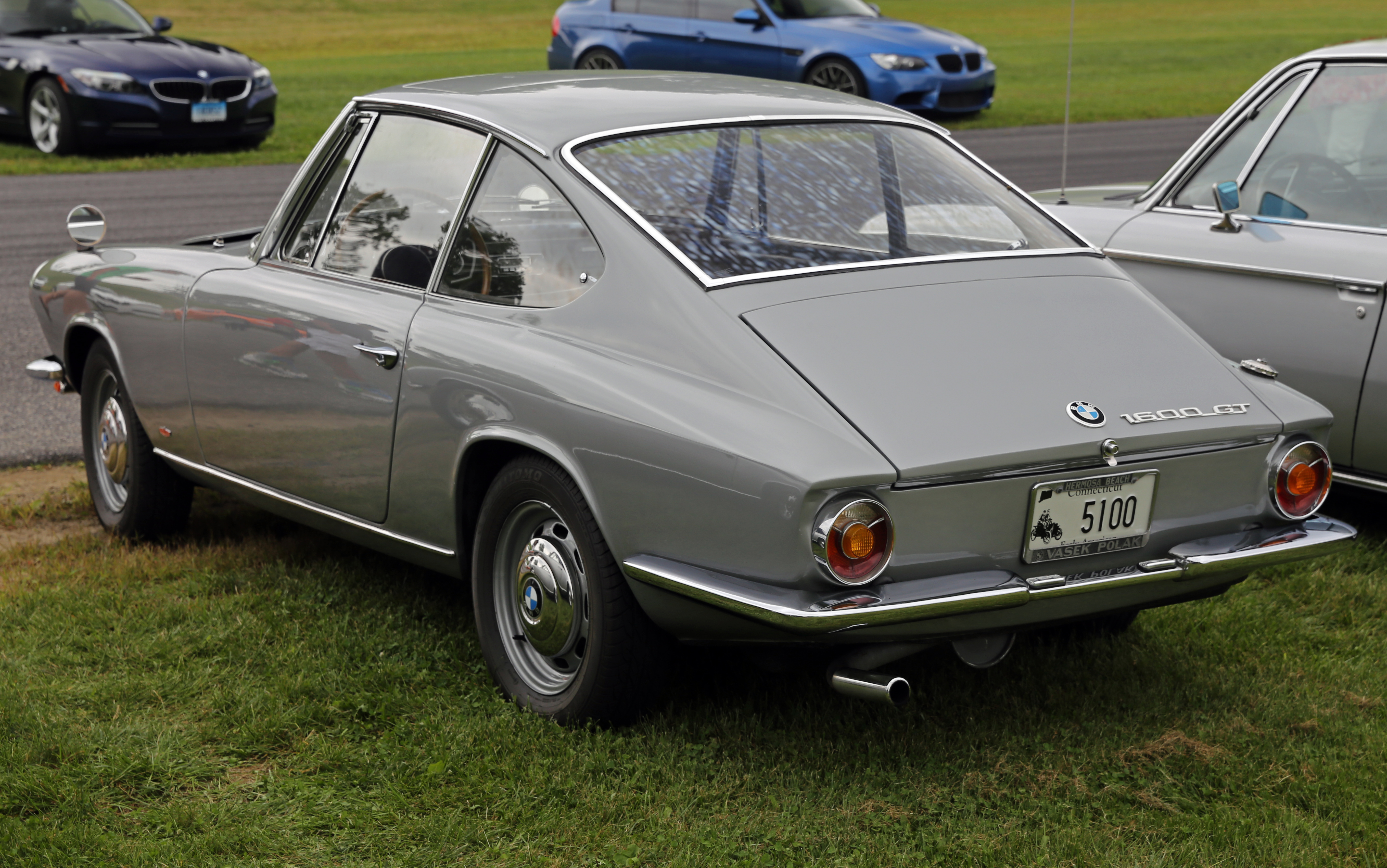 A 1967 BMW 1600 GT Coupé seen at the 2014 Lime Rock Gathering of the Marques attached to the Concours d'Élegance. The Vasek Polak license plate surround adds extra coolness.